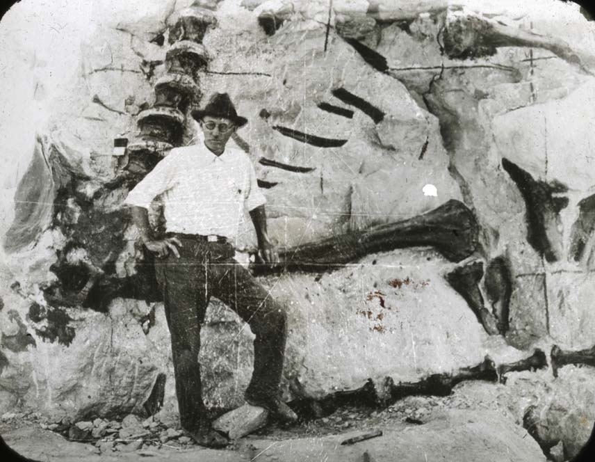 Local number: SIA2011-1420 Summary: RU 424 Box 7 Lantern Slide Box 22. Diplodocus over 80ft in length. Excavation of Dinosaur National Monument Quarry, 1923. From black and white lantern slides found in the Division of Vertebrate Paleontology Records. Repository: Smithsonian Institution Archives View more collections from the Smithsonian Institution.